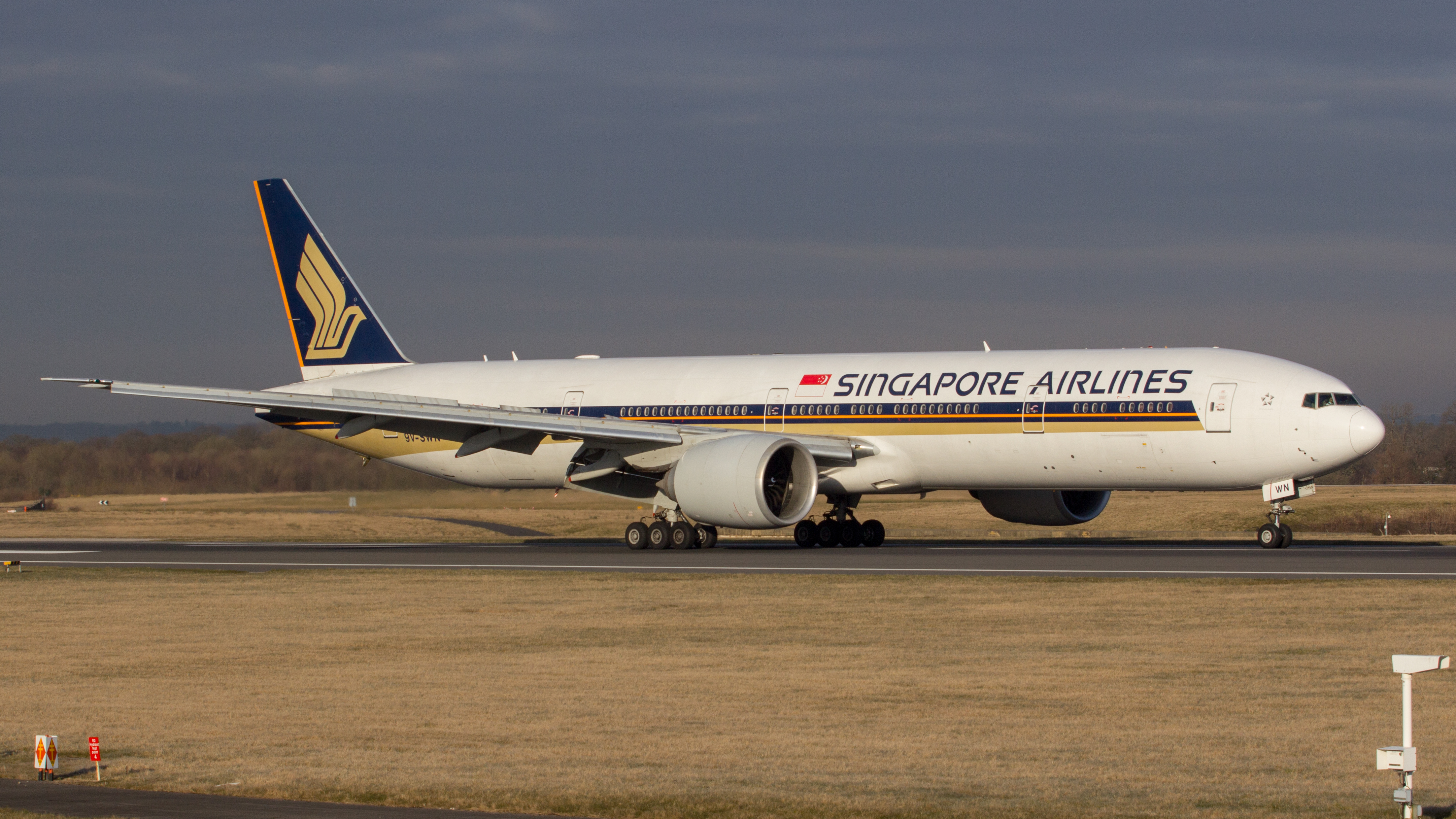 9V-SWN Singapore Airlines B777